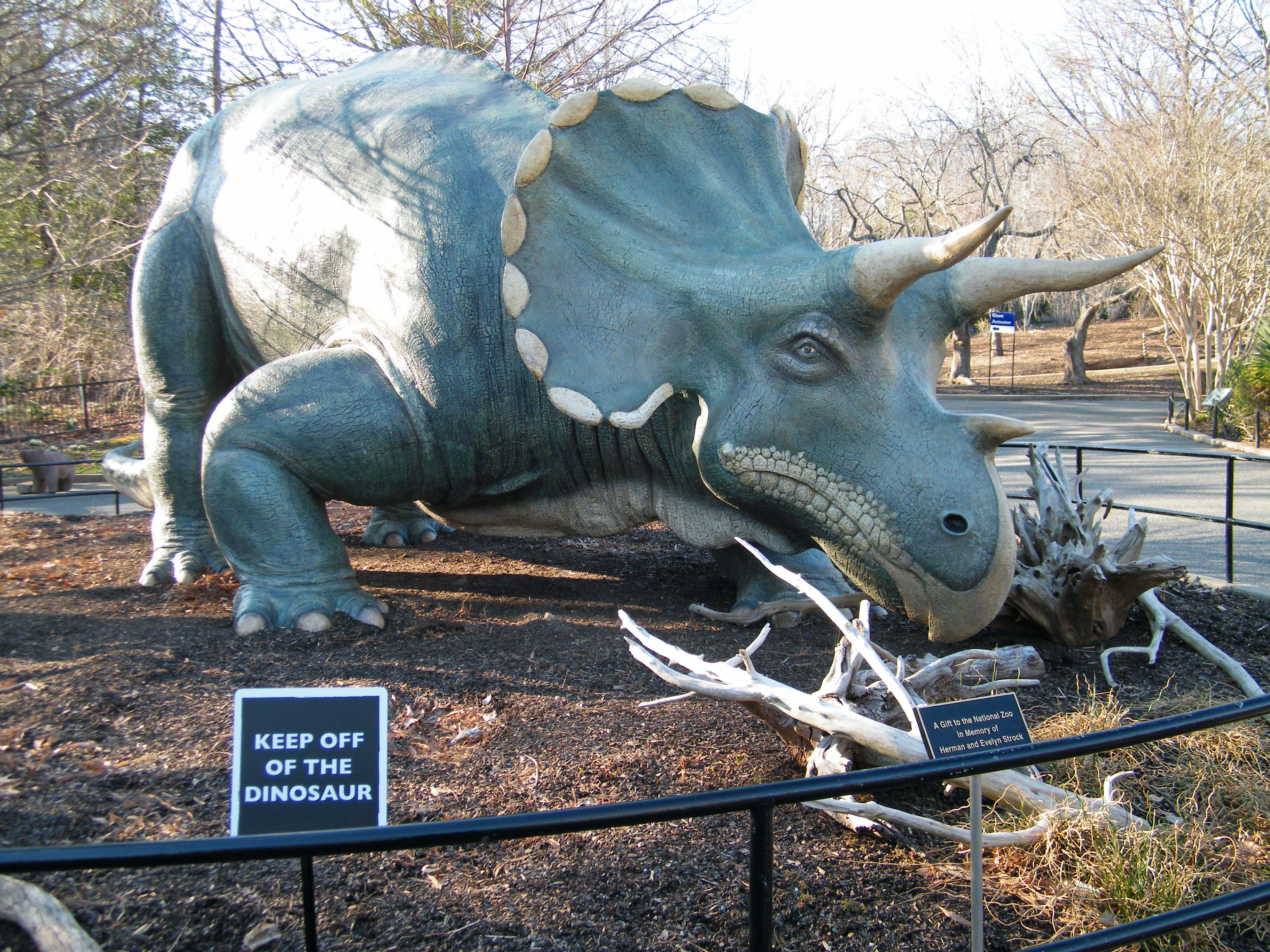 National Zoological Park Native nameSmithsonian National Zoological ParkParent institutionSmithsonian InstitutionLocation3001 Connecticut Ave. NW,Rock Creek Park, Washington, D.C.Coordinates38° 55′ 51.9″ N, 77° 02′ 59.03″ W Established1889Web pagenationalzoo.si.eduAuthority control : Q1043283 VIAF: 149525151 ISNI: 0000 0001 2182 2028 LCCN: n79079548 WorldCat institution QS:P195,Q1043283 Uncle Beazley at the National Zoo after a paint job.